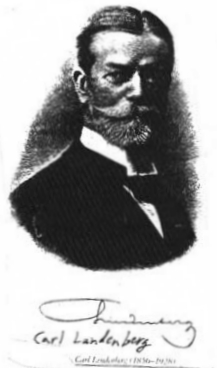 Carl Lindenberg (1850-1928), a judge and major stamp collector in Germany, began collecting at age seven in 1857, headed the Berliner Philatelisten-Klub, and donated of the Lindenberg medal (1905). He was instrumental in exposing Fouré’s forgeries of German postal stationary and in giving the Reichsmuseum a cover with the Moldavian Bulls.